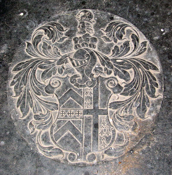 St Martin's church in Houghton - ledger slab (detail). Horatio Walpole Armig ; filius natu minor Edv. Walpole, Balnei militis, qui obt. Quinquagenurius, 17 Oct. 4. D. 1717, with Walpole impaling, quarterly, ermine and azure, a cross or, Osborne. (Source: An Essay Towards a Topographical History of the County of Norfolk: Gallow ... By Francis Blomefield). Horatio Walpole (11 July 1663 – 1717), of Beck Hall, Norfolk, MP, was the uncle of Sir Robert Walpole, Prime Minister. He married Lady Anne Coke, widow of Robert Coke of Holkham, Norfolk, and daughter of Thomas Osborne, 1st Duke of Leeds.